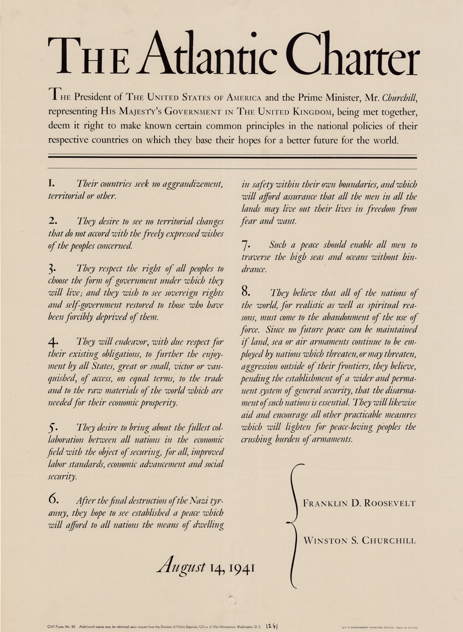 Atlantic Charter. Office of War Information (OWI) poster No. 50. National Archives and Records Adminstration Records of the Office of Government Reports Record Group 44 ARC Identifier: 513885